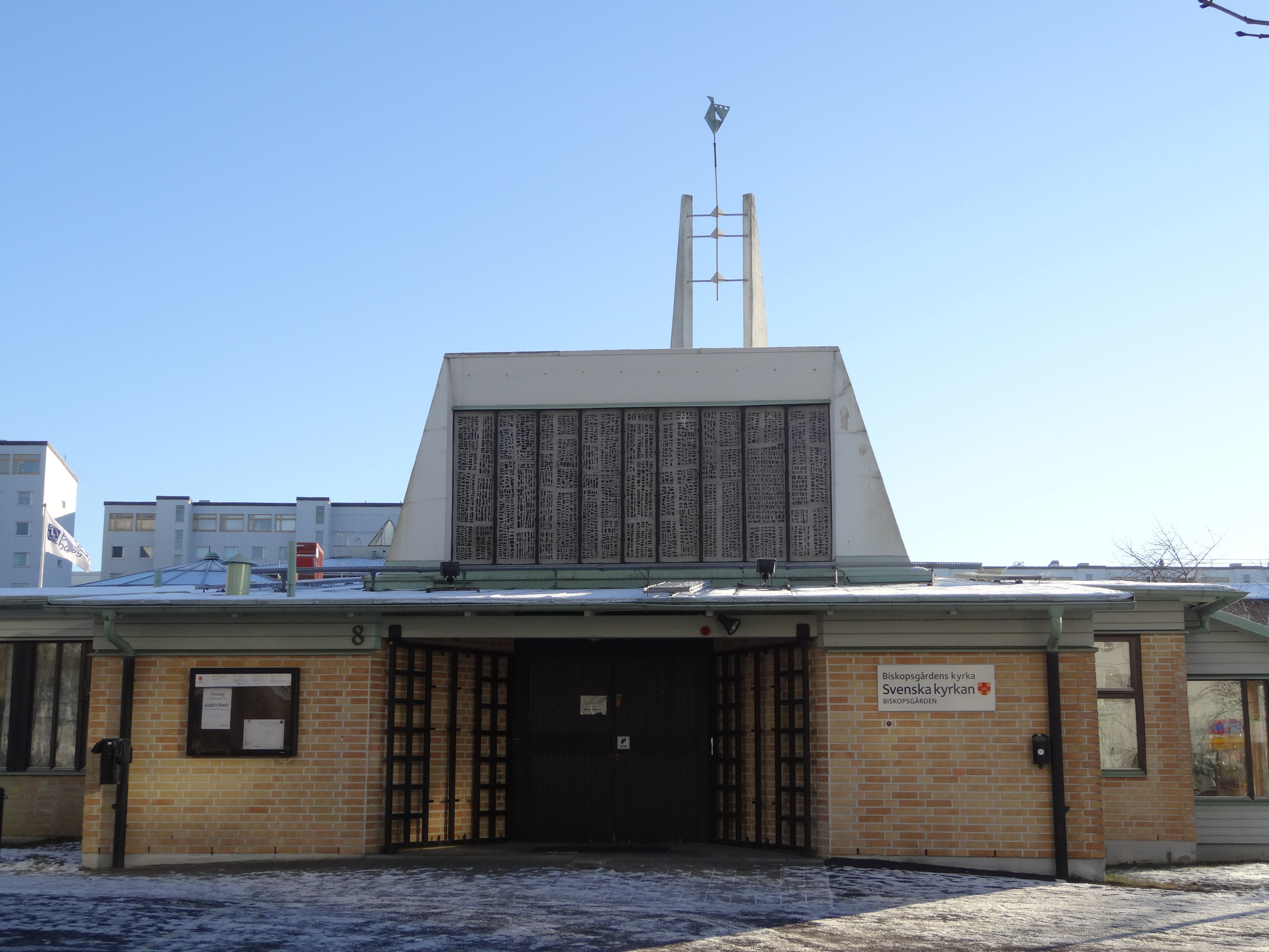 Biskopsgården Church in Göteborg, Sweden. Entrance.